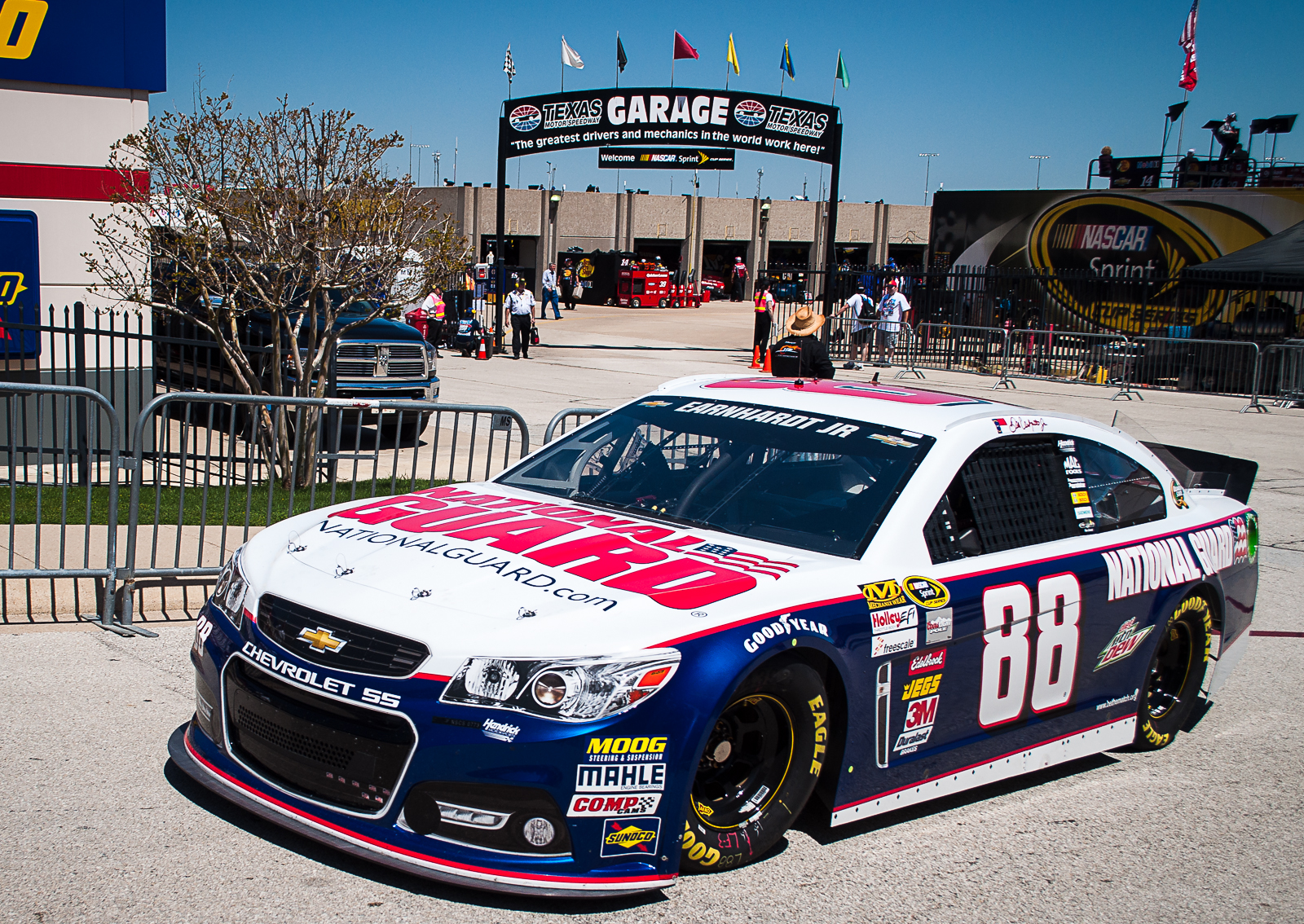 Dale Earnhardt, Jr. drives the No. 88 Hendrick Motorsports Chevrolet out of the garage area at Texas Motor Speedway during practice for the 2013 NRA 500.